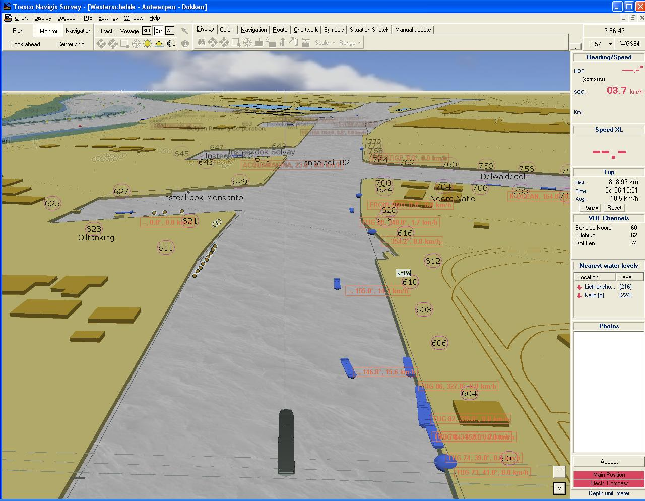 Tresco screenshot of PC Navigis in 3D-mode with AIS targets